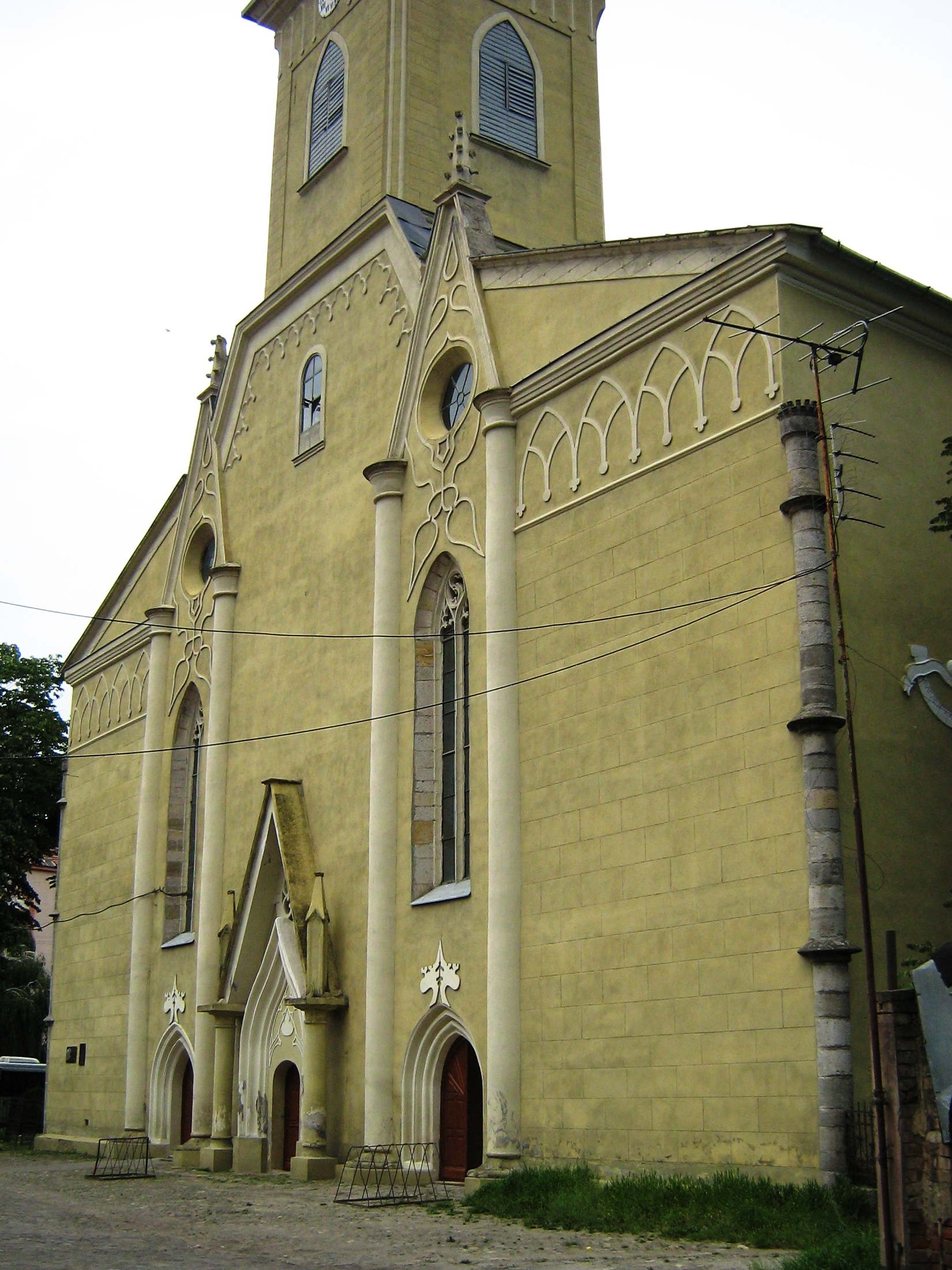 The front entrance of the roman catholic church in Beregszász